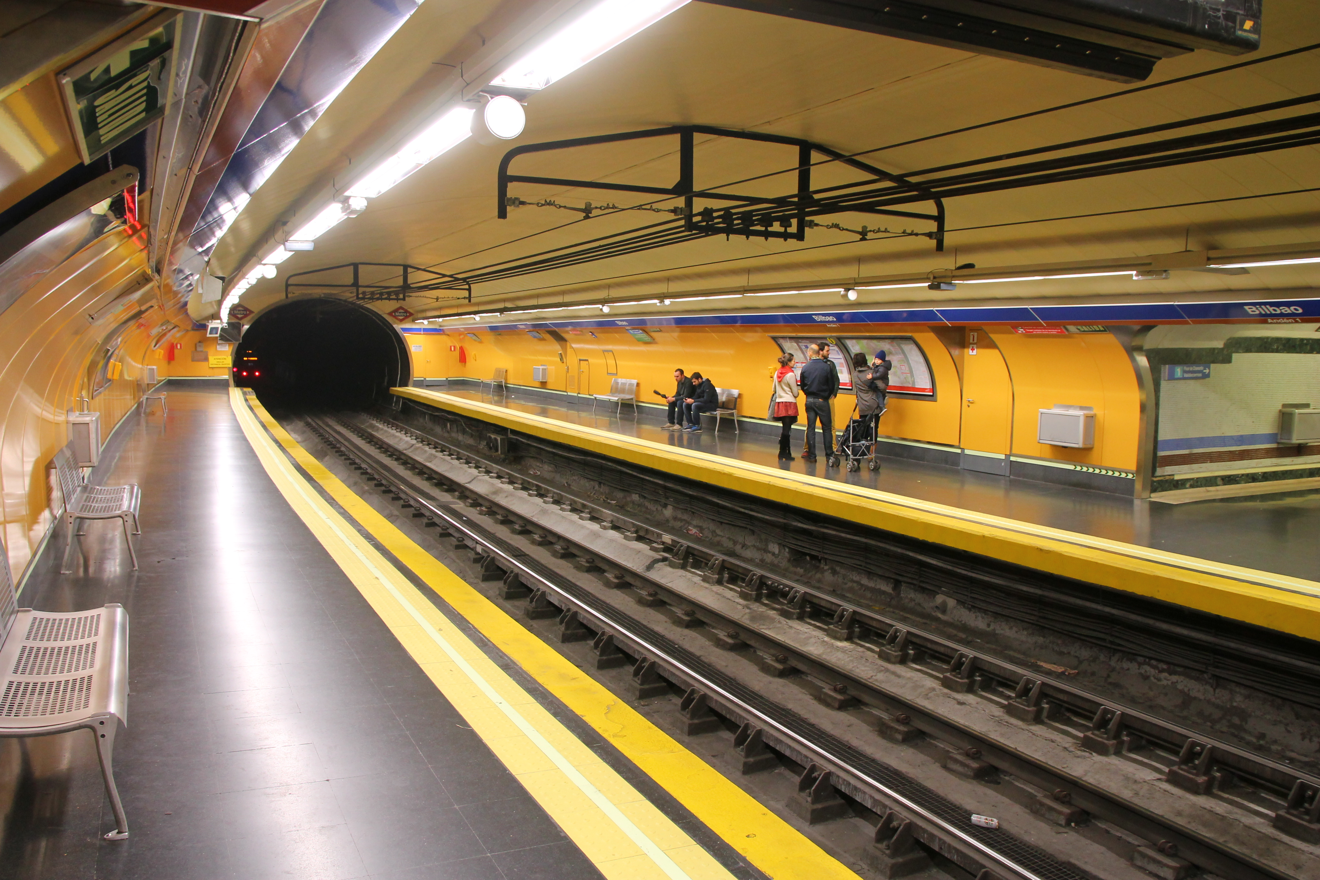 Estación de Bilbao